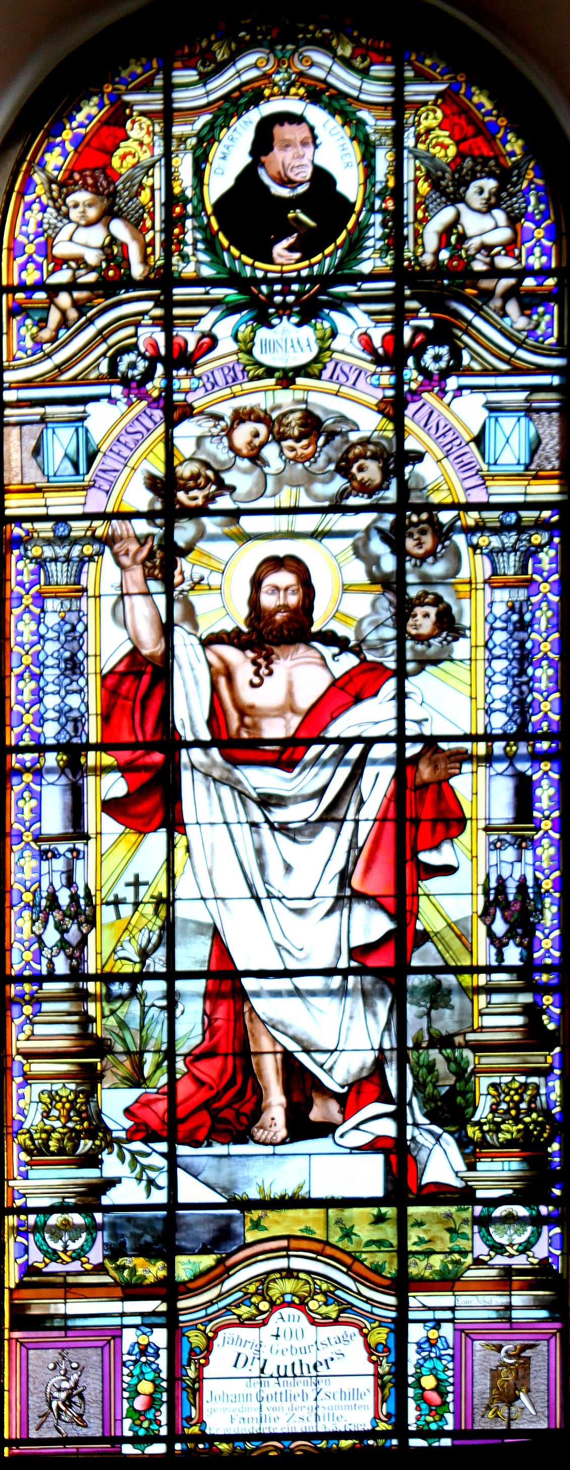 The "Osterfenster" in the Marienchurch of Großenhain